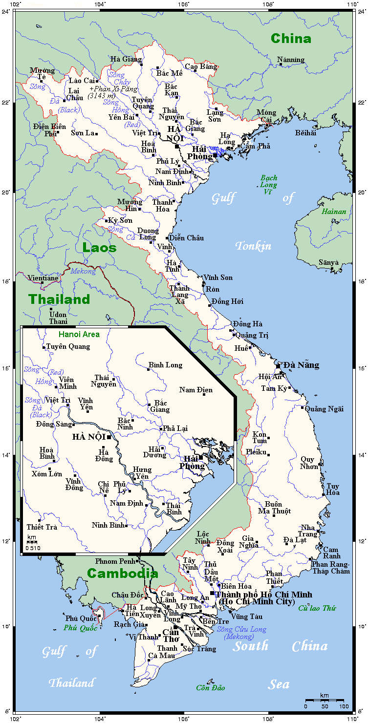 A map showing Vietnam's cities and main towns.